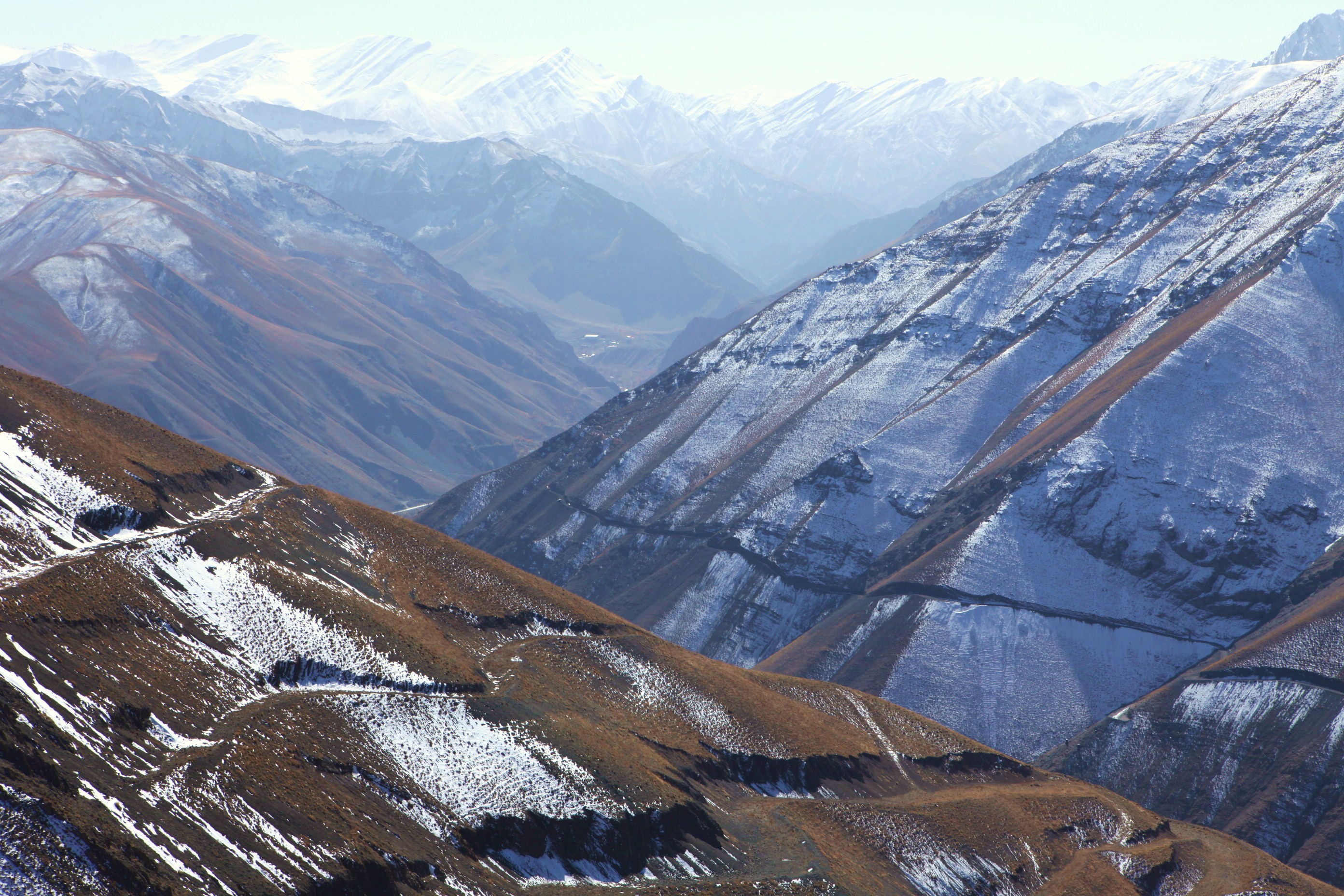 Alborz Mountains